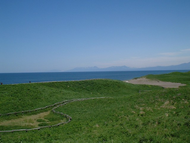 Koshimizu Genseikaen in Koshimizu Town, Hokkaido, Japan